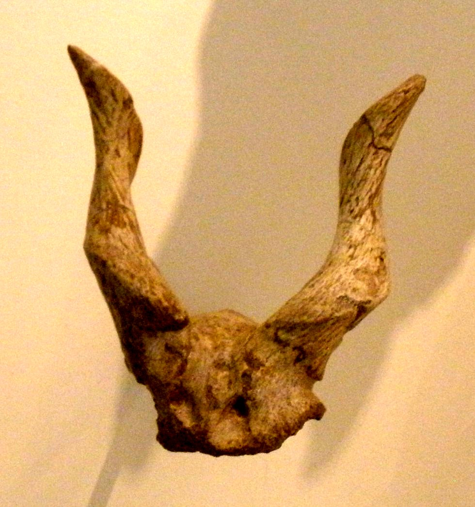 Fossil of Protostrepsiceros, an extinct artiodactyl